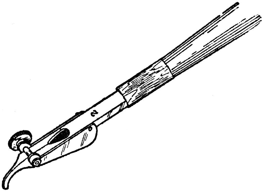 Line drawing of a Payzant pen, a tool used for single stroke lettering